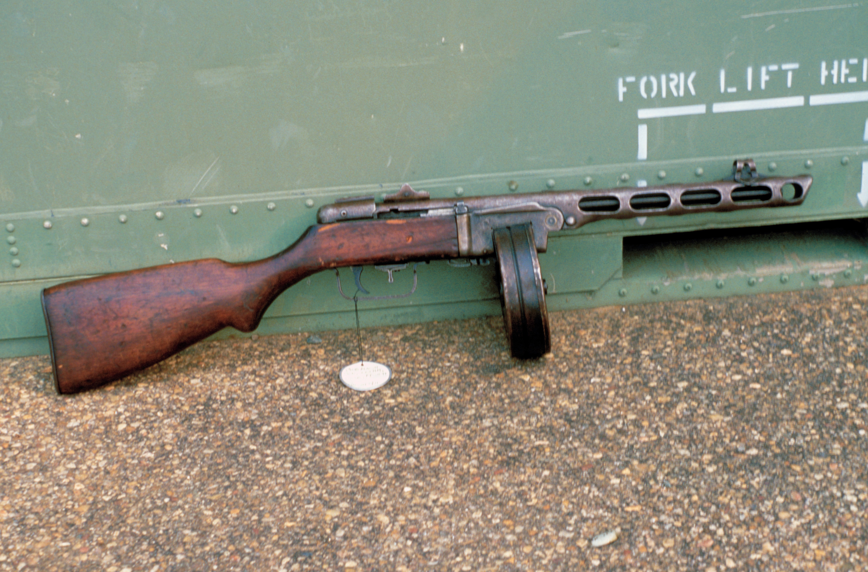 A close-up view of a Soviet PPSH-41 sub-machine gun on display.